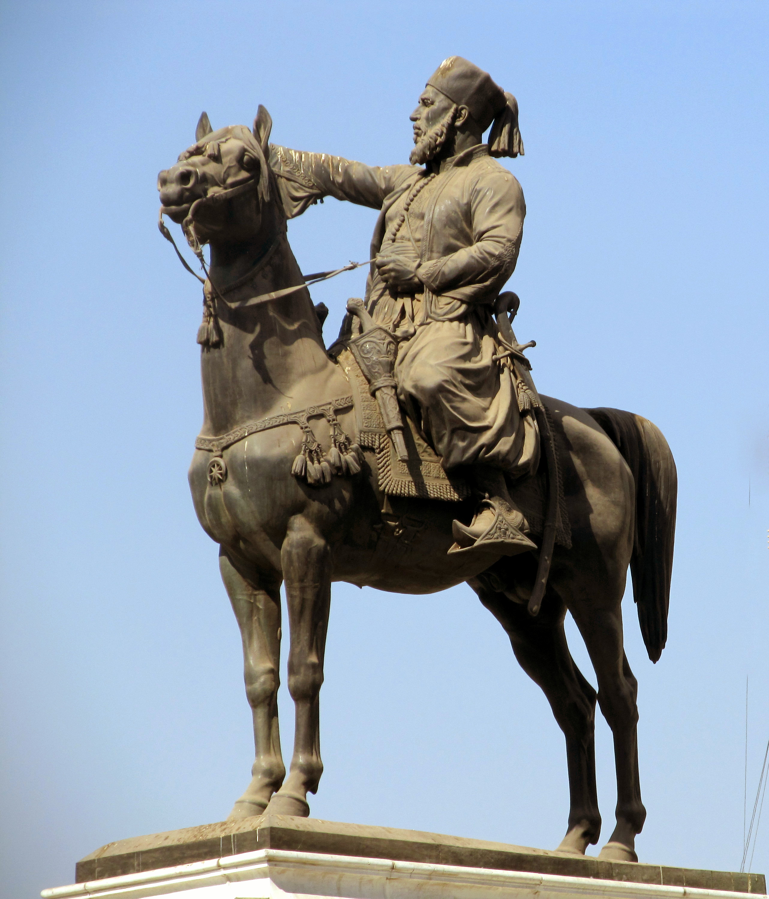 Statue of Ibrahim Pacha in Cairo, Egypt.